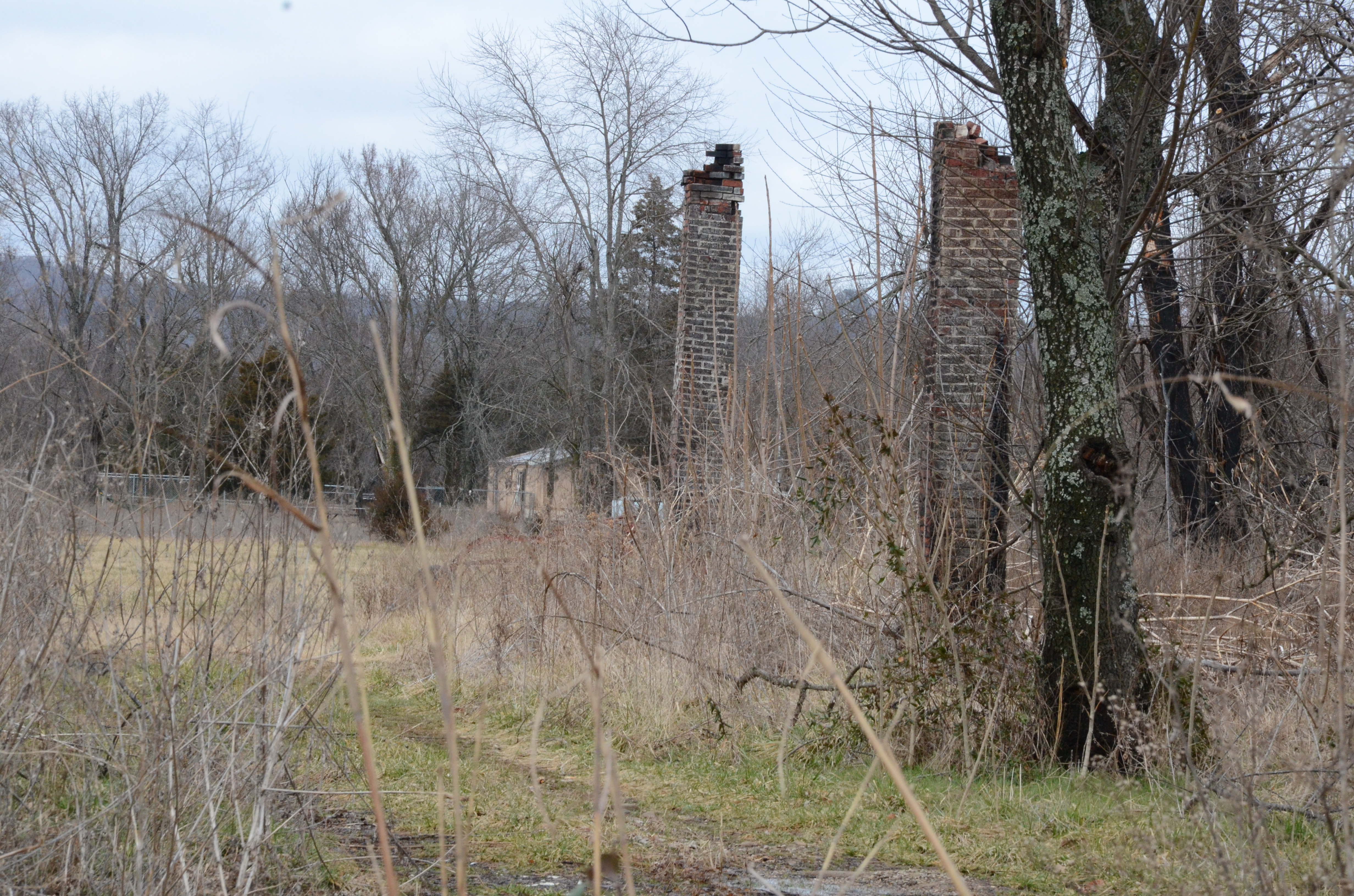 Durham School All that remains is the chimneys after the school was destroyed by arson.